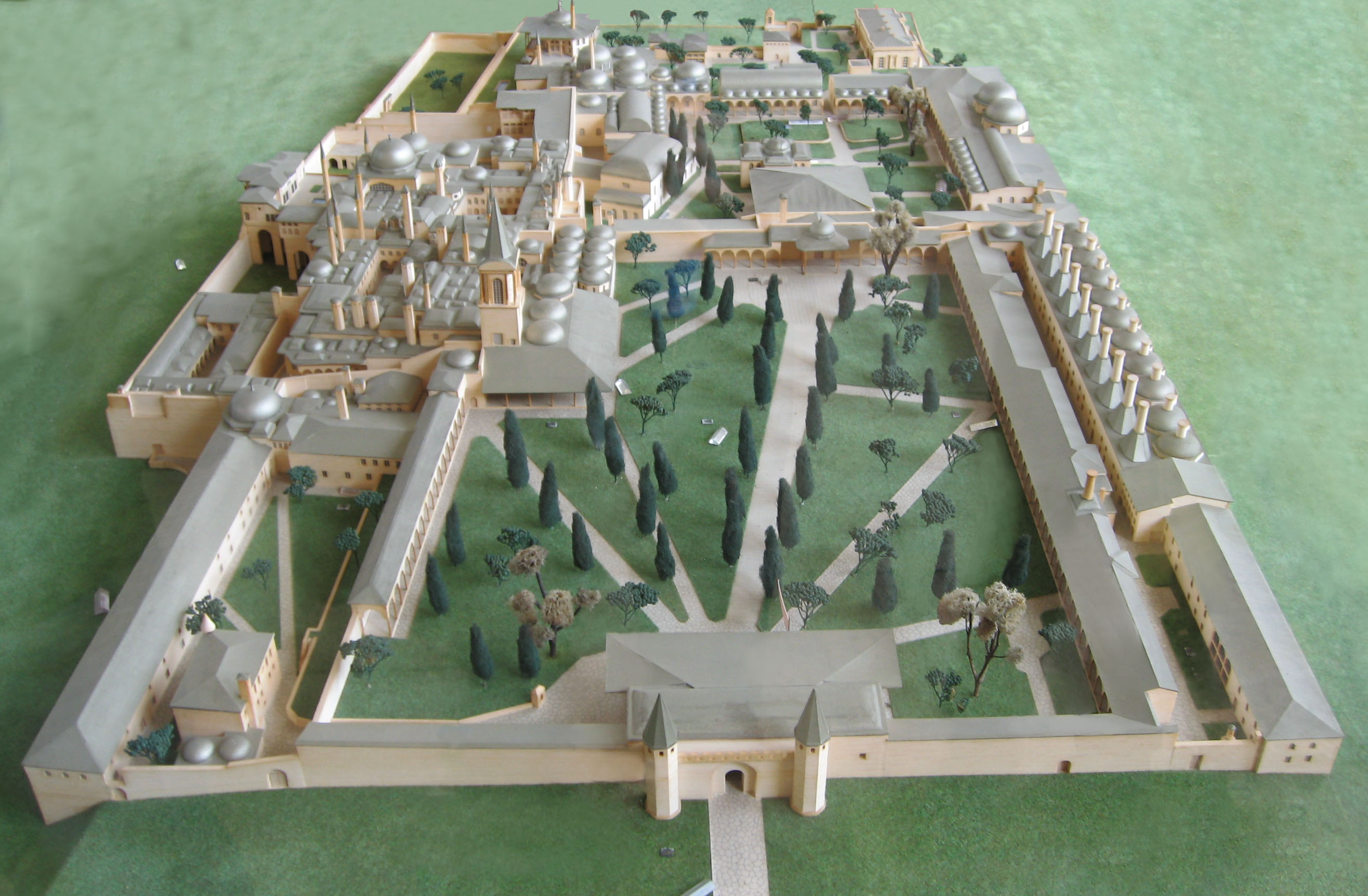 Architectural model of Topkapı Palace in Istanbul, showing the inner part of the complex starting with the 2nd Courtyard and the Gate of Salutation (bottom middle). Model is exhibited at the palace itself.